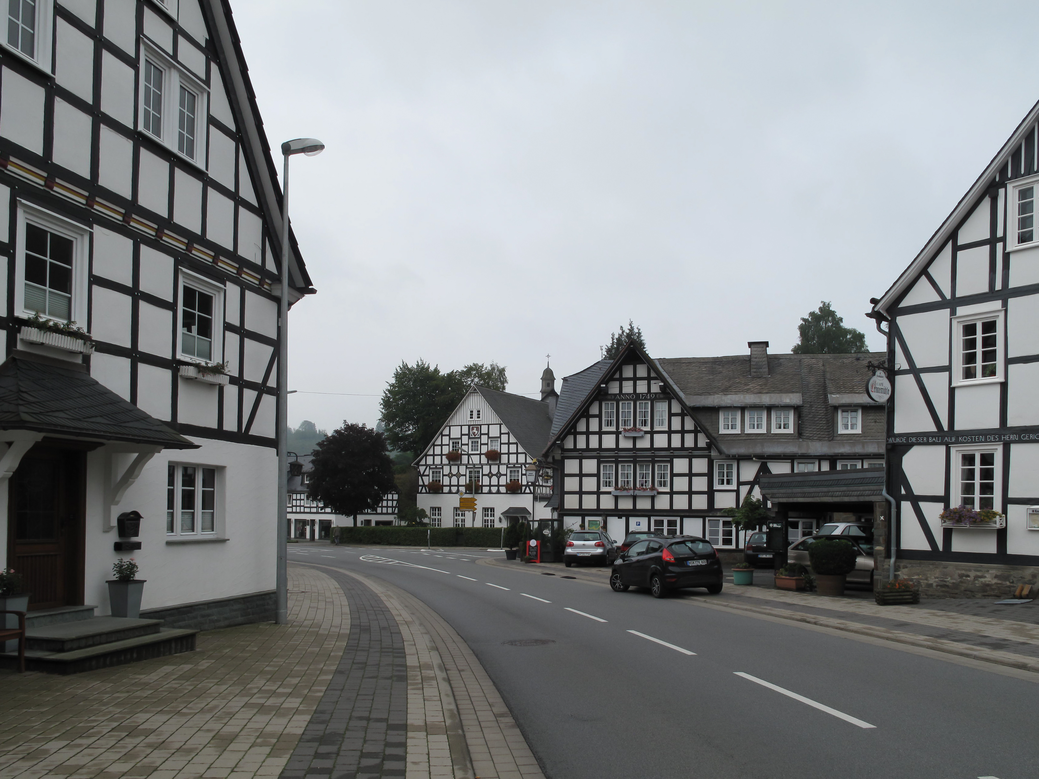 Oberkirchen, view to a street (B 236)